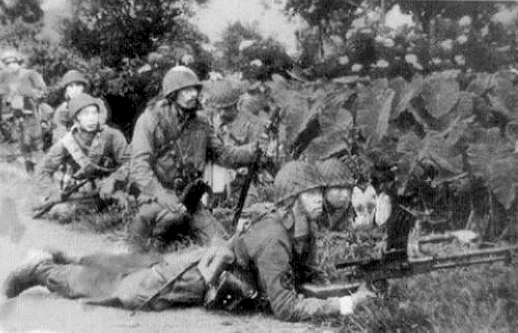 Paratroppers of the Imperial Japanese Navy are attacking Dutch troops at Longoan airfield during the Battle of Manado, 11–13 January 1942